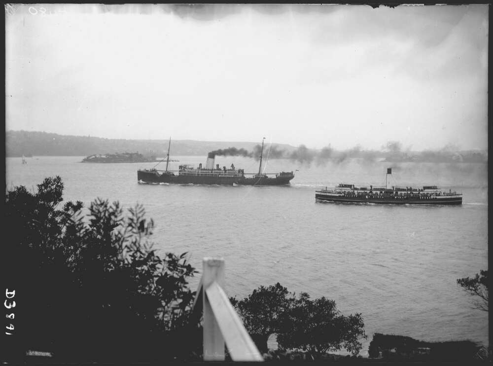 S.S. Bombala and the ferry Bellubera, Februrary 18, 1928 (1928).